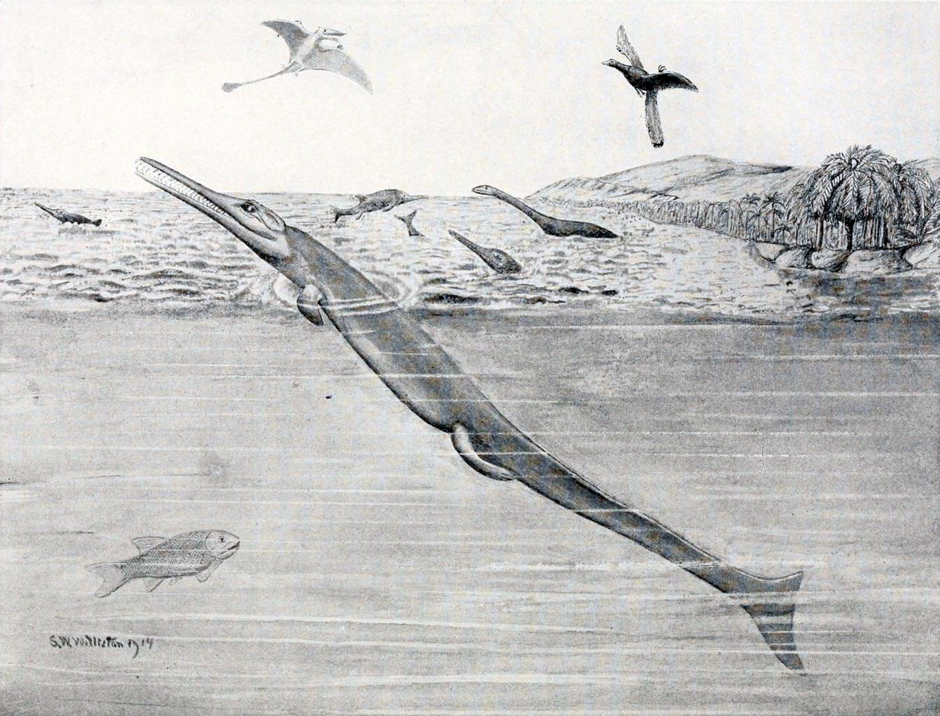 Rhacheosaurus gracilis[1] by Samuel Wendell Williston (1851-1918) from Water Reptiles of the Past and Present 1914 United States